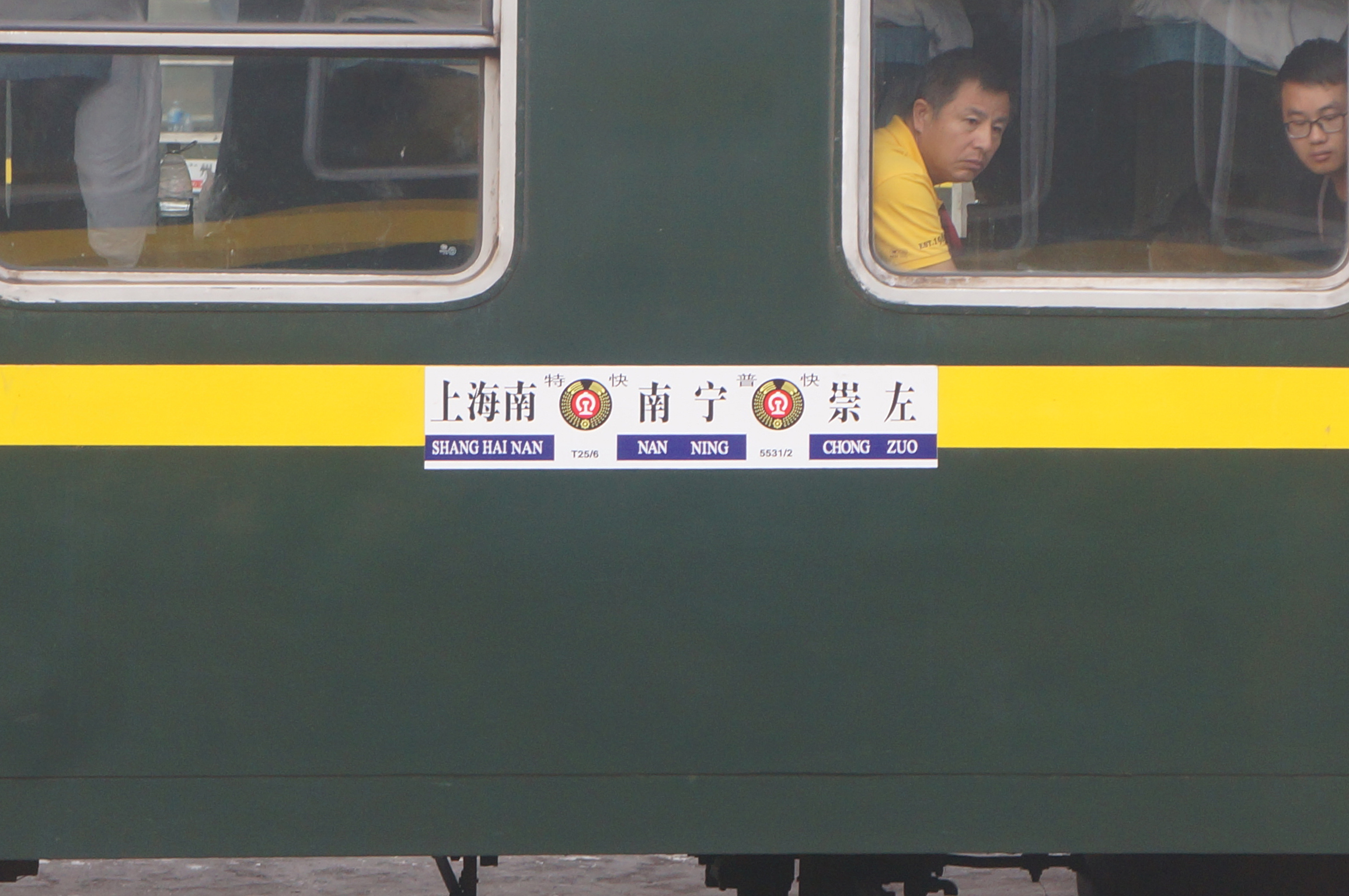 T25 26 infoboard in 201708. Taken at Yingtan Station